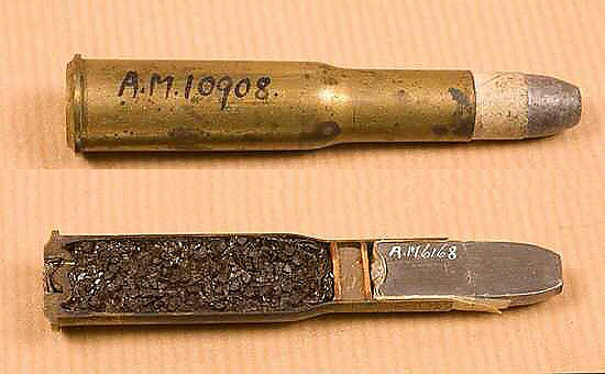 10.15x61mmR "Jarmann". Introduced in 1881 in Sweden and Norway.